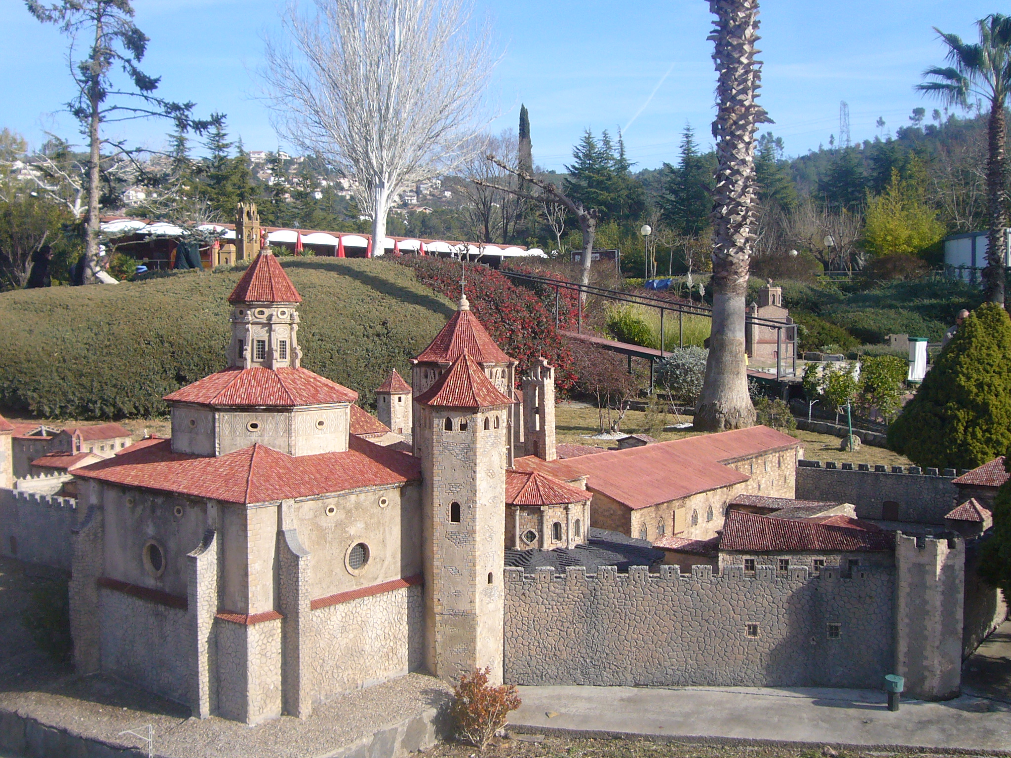 Scale model at the "Catalunya en Miniatura" miniature park : Monastery of Poblet